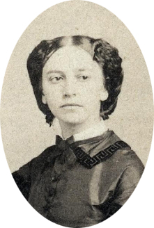 A photograph of Princess Feodora of Hohenlohe-Langenburg (7 July 1839 - 10 February 1872)